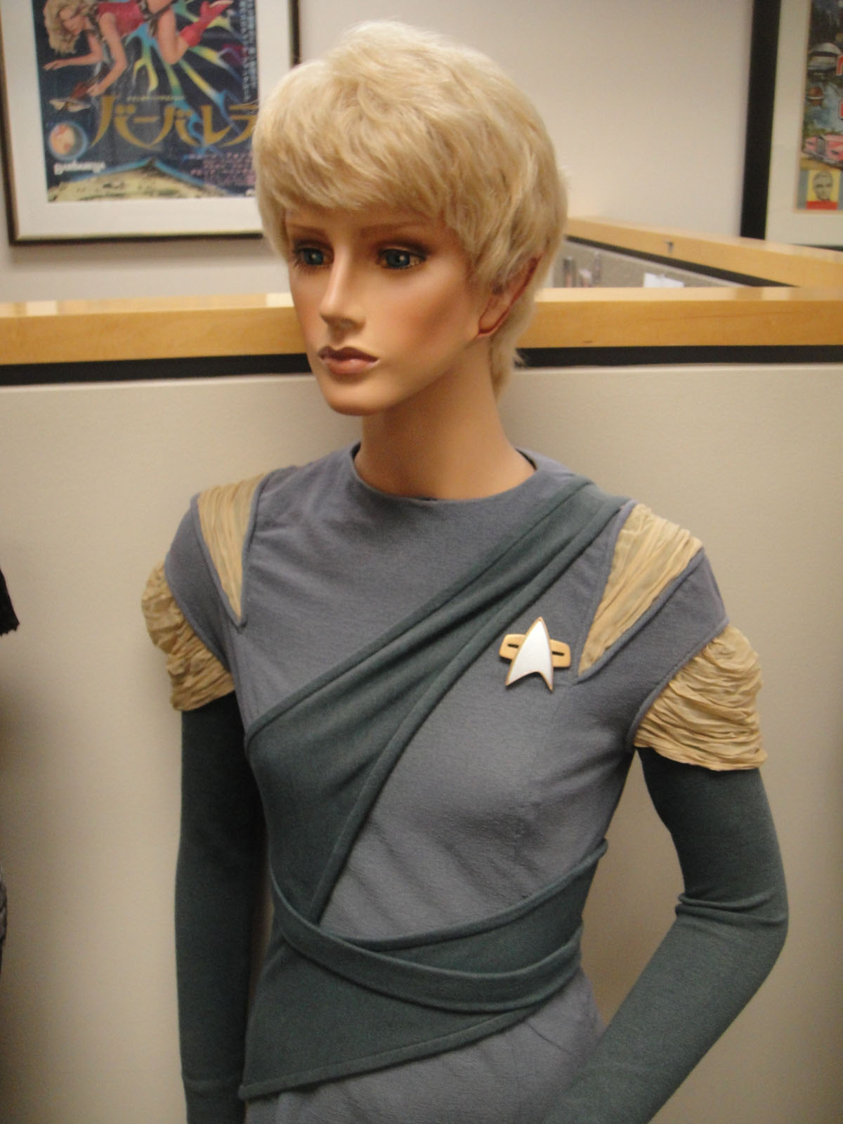 photo 2012 taken by Doug Kline If you're interested in higher resolution versions of my images, contact me via my profile page.